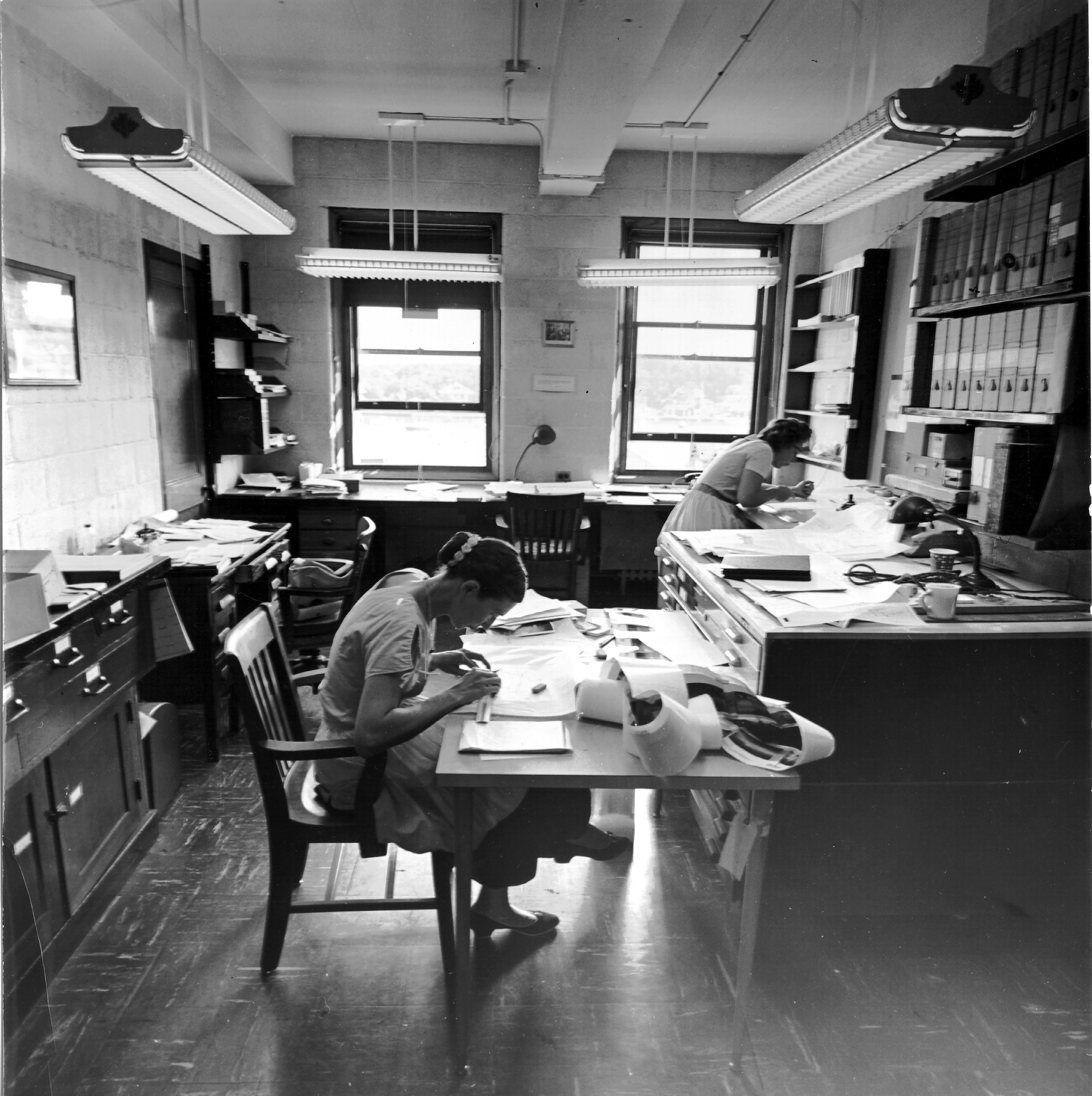 In the photo above, taken in the 1950s, Simpson is bent over reams of images of clouds that she filmed during long flights between islands in the tropical Pacific. From the photos, she is drawing detailed maps of cloud formations. These observations underpinned her first major contribution to atmospheric science: the boat-rocking hypothesis that tropical clouds weren’t just the passive result of atmospheric circulation, as meteorologists of the day believed, but were in fact the cause of it.